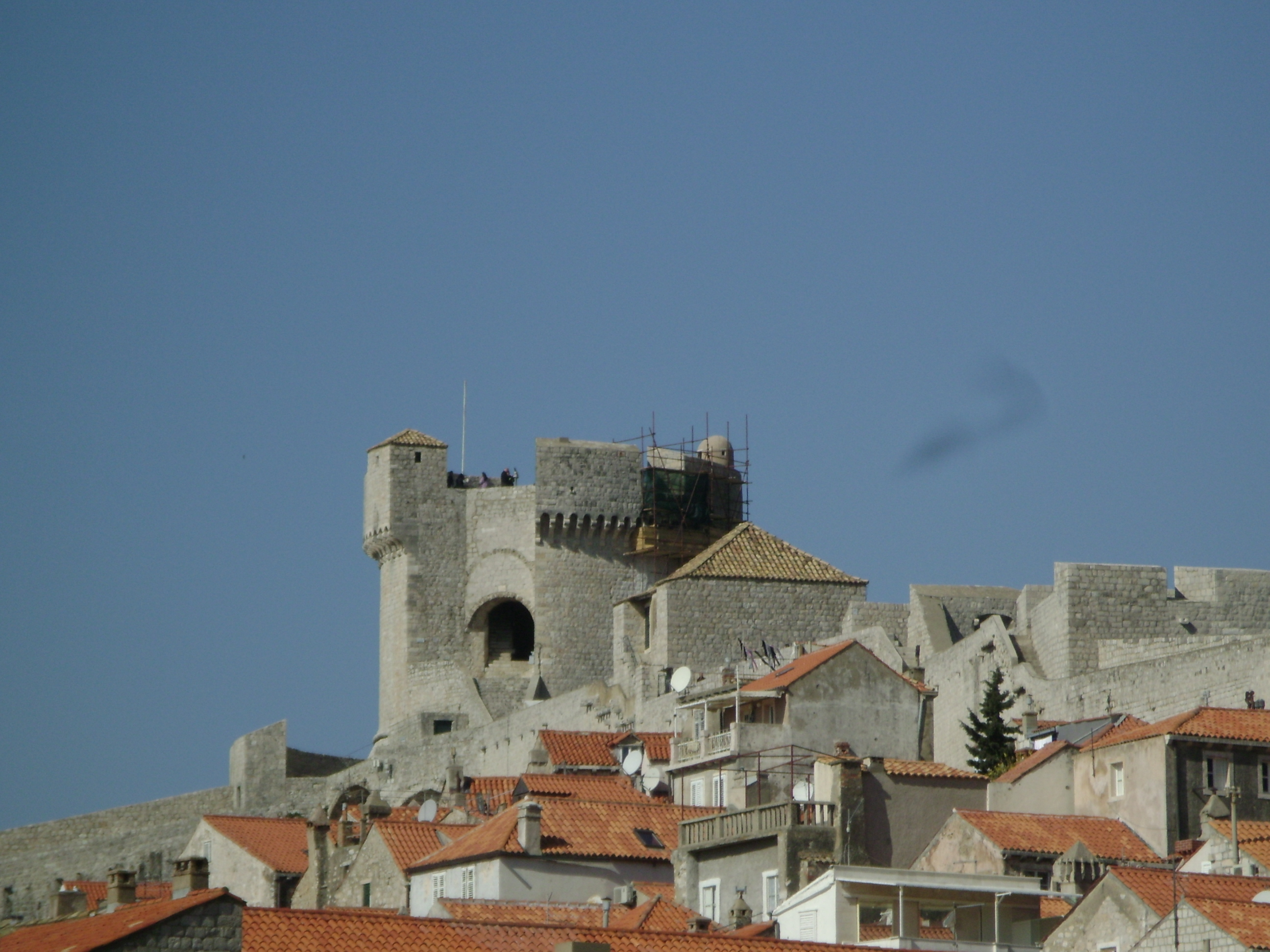 Dubrovnik, old town, monuments Minčeta